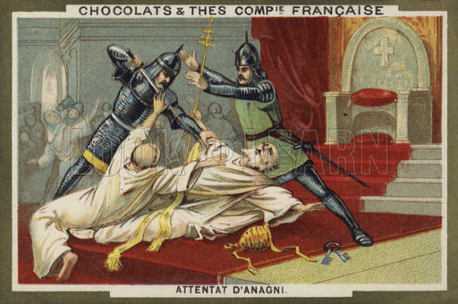 The Outrage of Anagni, 1303. Guillaume de Nogaret restraining Sciarra Colonna from killing Pope Boniface VIII.